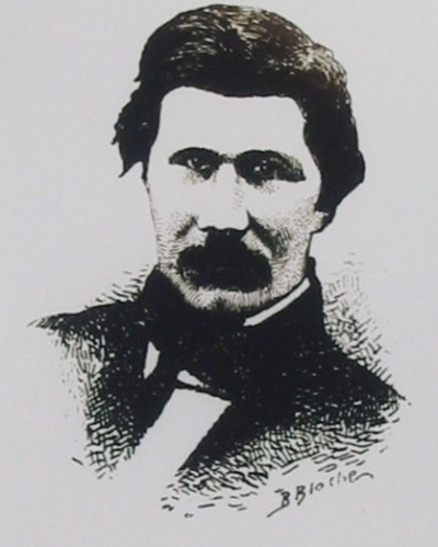 Pau Giera, from a PD book illustration